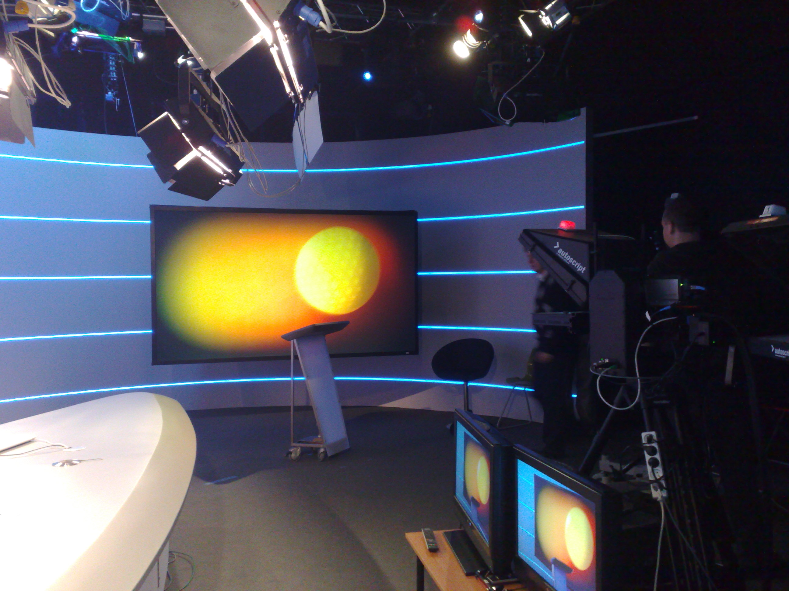 sport studio, TV Z1, 2008